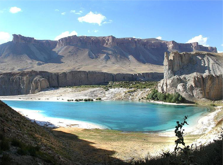 The Band-e Paneer Lake in Afghanistan; part of Band-e Amir.